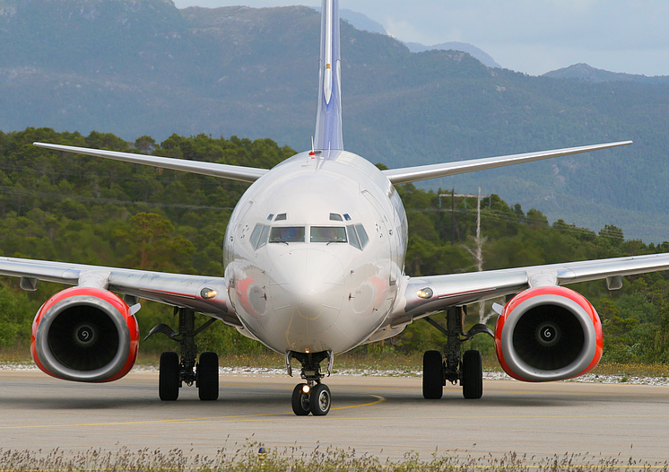 SAS Boeing 737